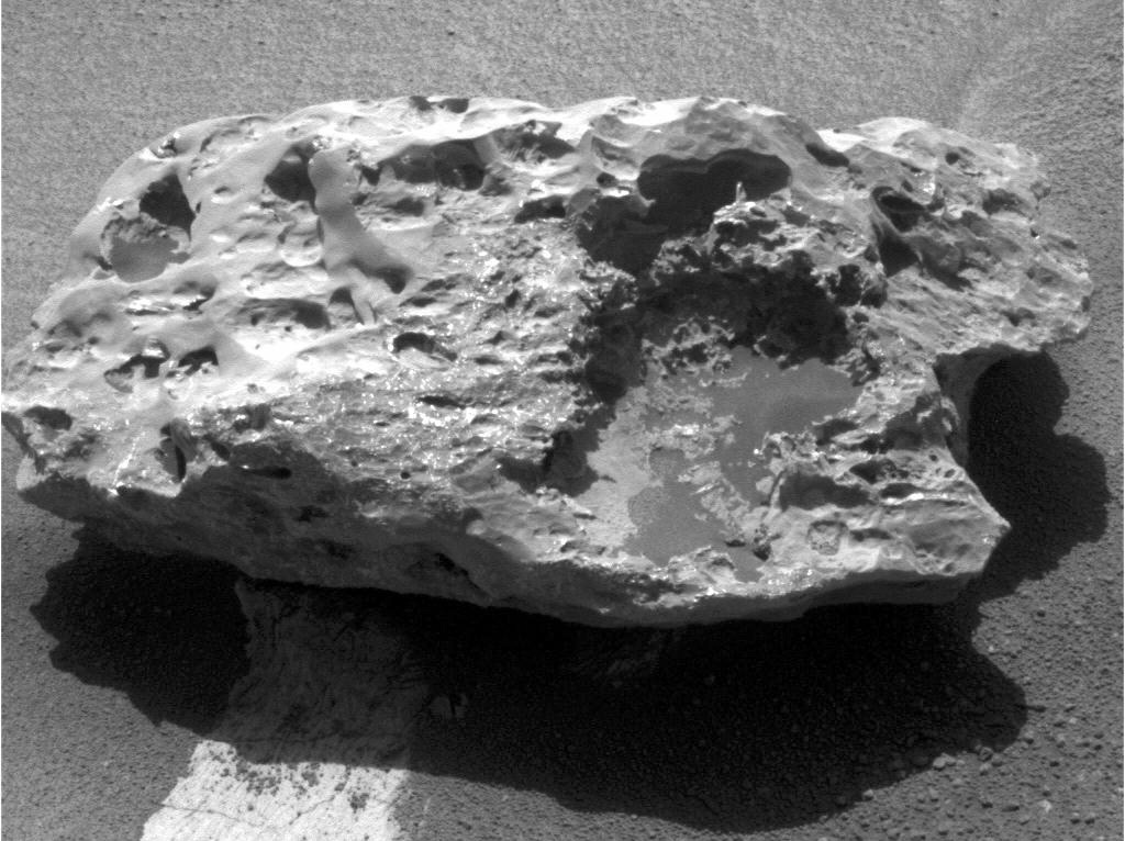 Composition measurements by NASA's Mars Exploration Rover Opportunity confirm that this rock on the Martian surface is an iron-nickel meteorite. This image combines exposures from the left eye and right eye of the rover's panoramic camera to provide a three-dimensional view when seen through red-green glasses with the red lens on the left. The camera took the component images during the 1,961st Martian day, or sol, of Opportunity's mission on Mars (July 31), after approaching close enough to touch the rock with tools on the rover's robotic arm. Researchers have informally named the rock "Block Island". With a width of about two-thirds of a meter (2 feet), it is the largest meteorite yet found on Mars. Opportunity found a smaller iron-nickel meteorite, called "Heat Shield Rock" in late 2004.